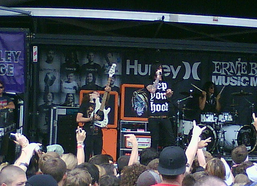 Escape The Fate live at a concert.